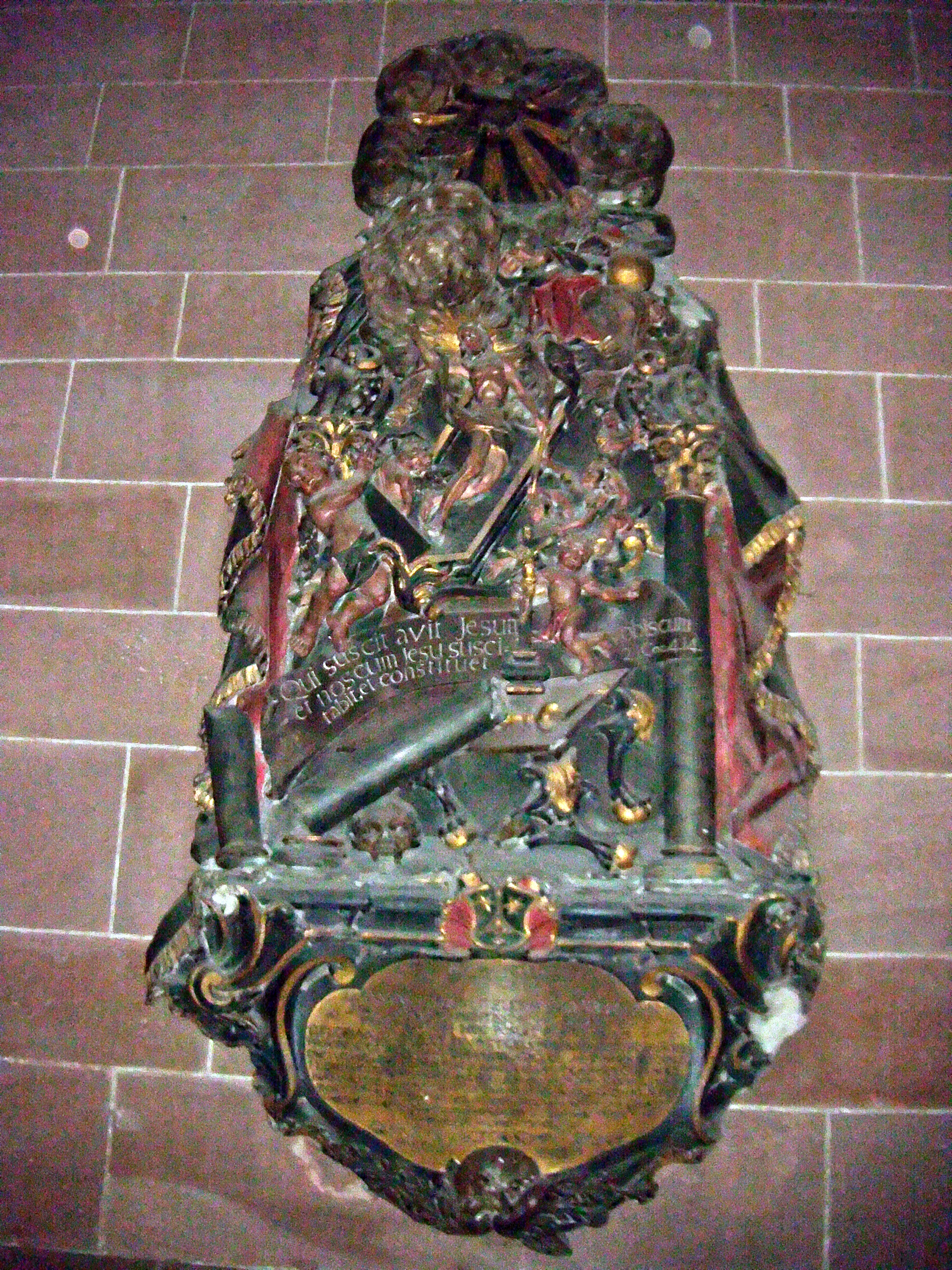 Wormser Dom, Barockepitaph Anna Gertrud Litzler (+ 1740), ursprünglich aus Johanneskirche